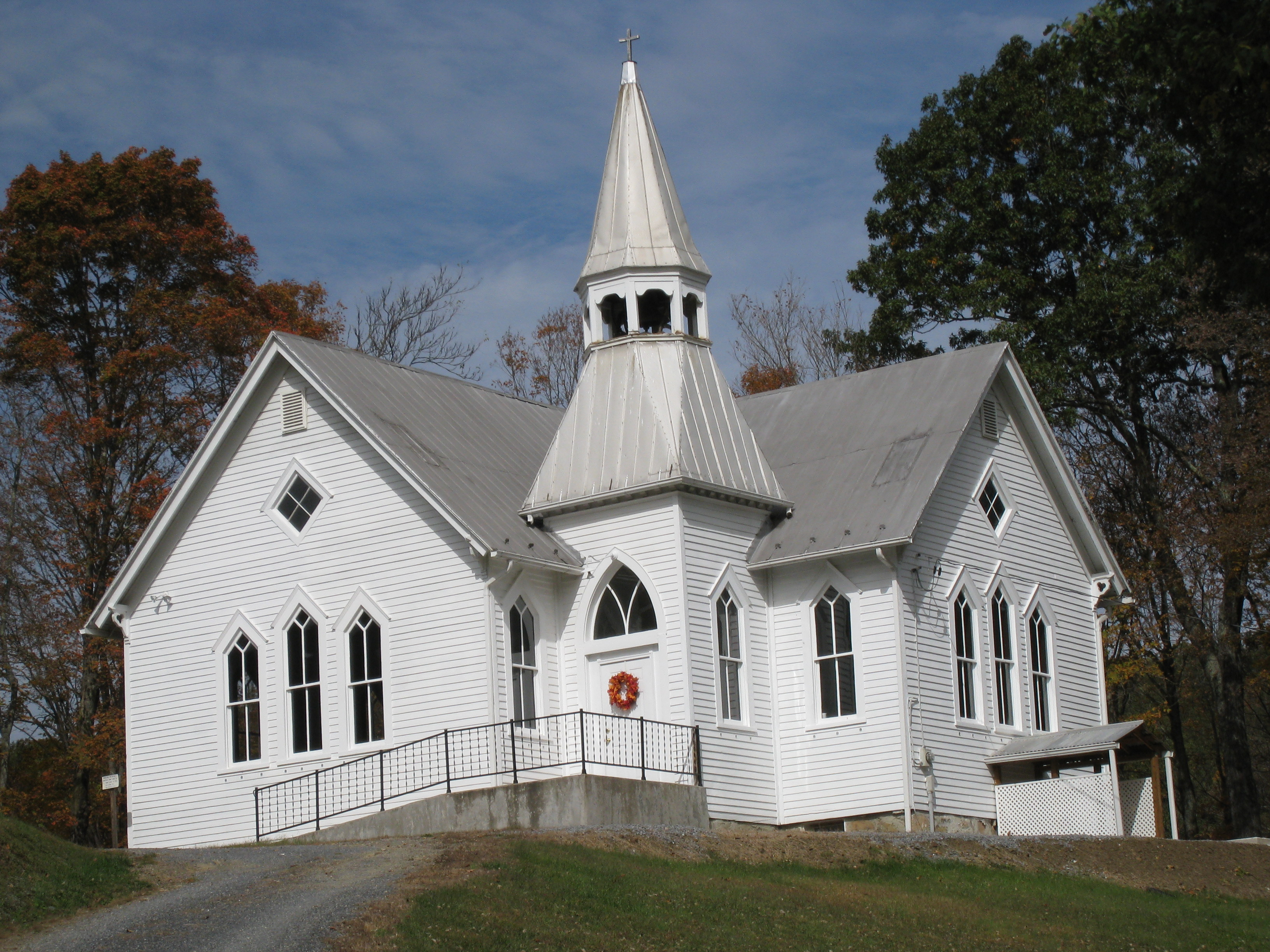 Bethel United Methodist Church along Spring Gap Road (County Route 2) near Neals Run, West Virginia, United States.